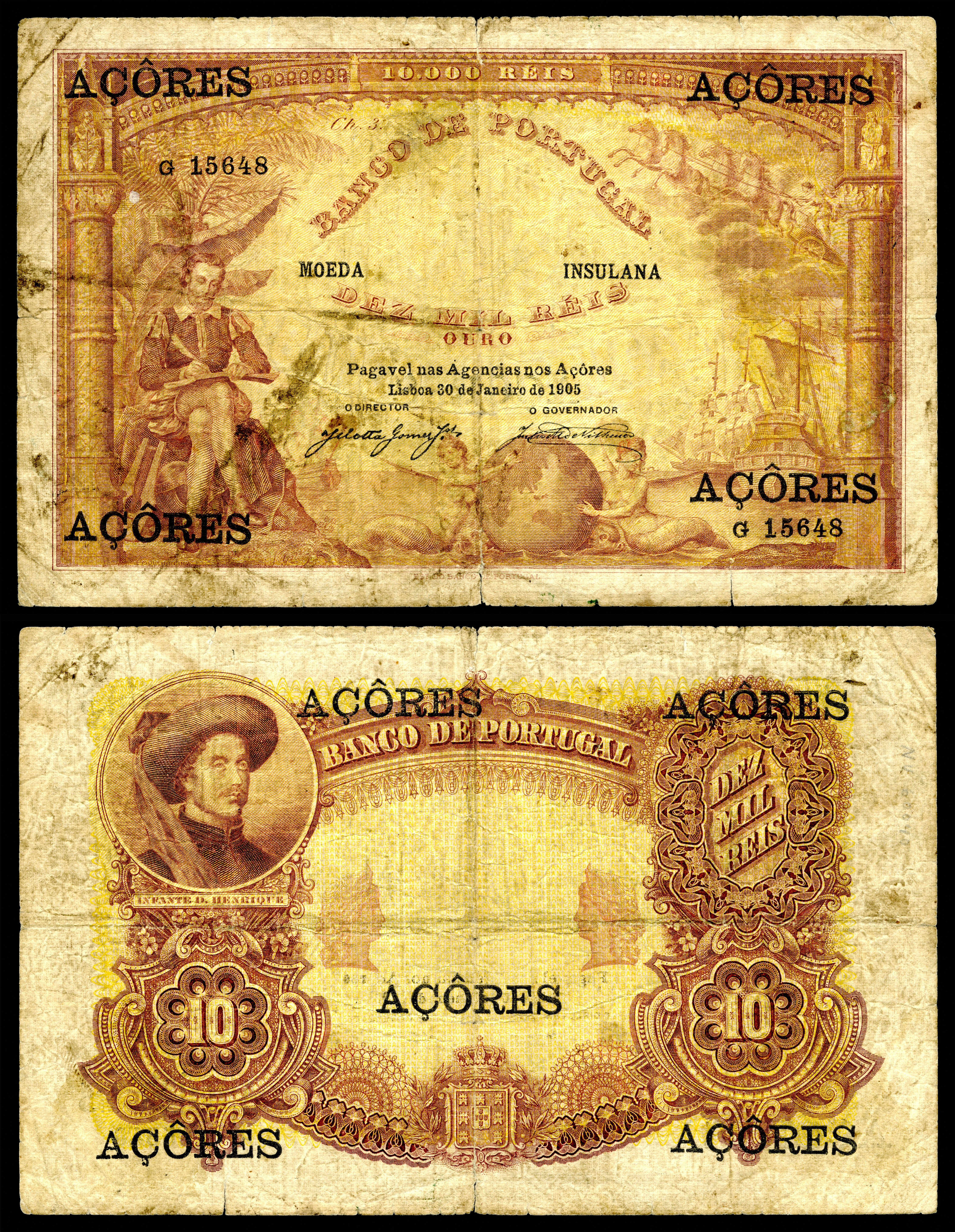 Azores (Banco de Portugal) 10,000 Reis in gold (1905).